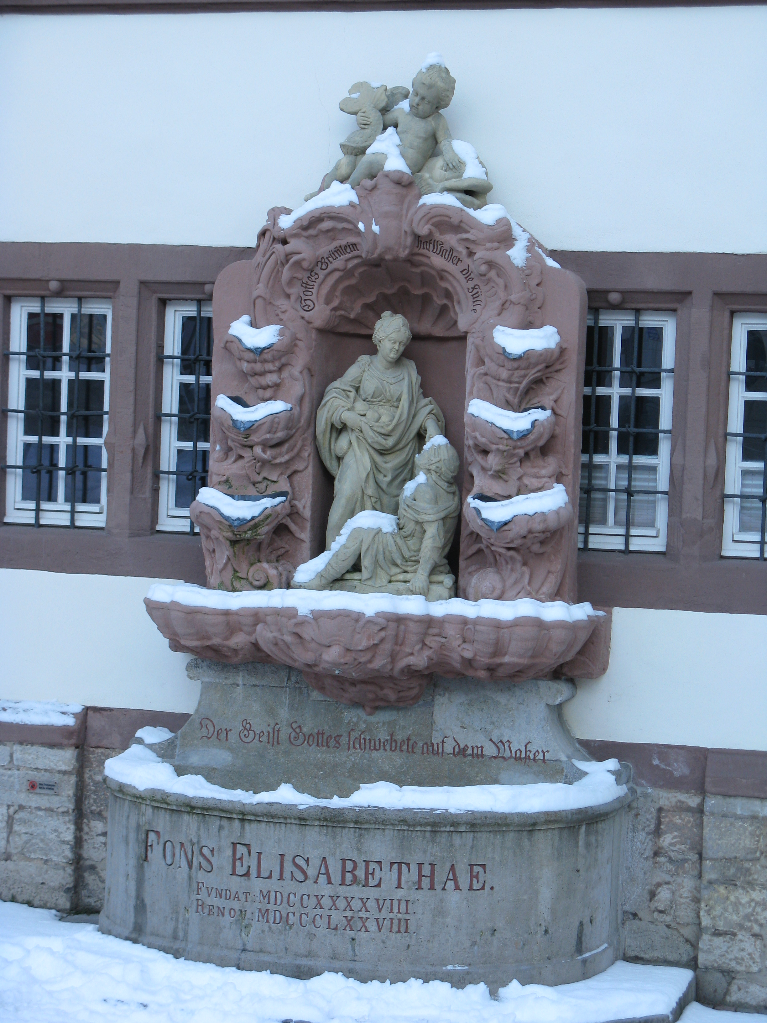 Bad Gandersheim - Abbey (Fountain of St. Elisabeth)